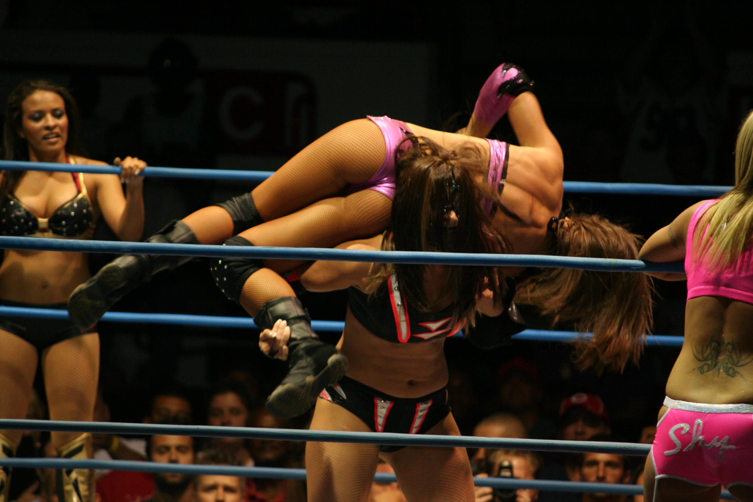 Professional wrestler Sarita performing a "La Reienera" on Brooke Tessmacher at a TNA live event.